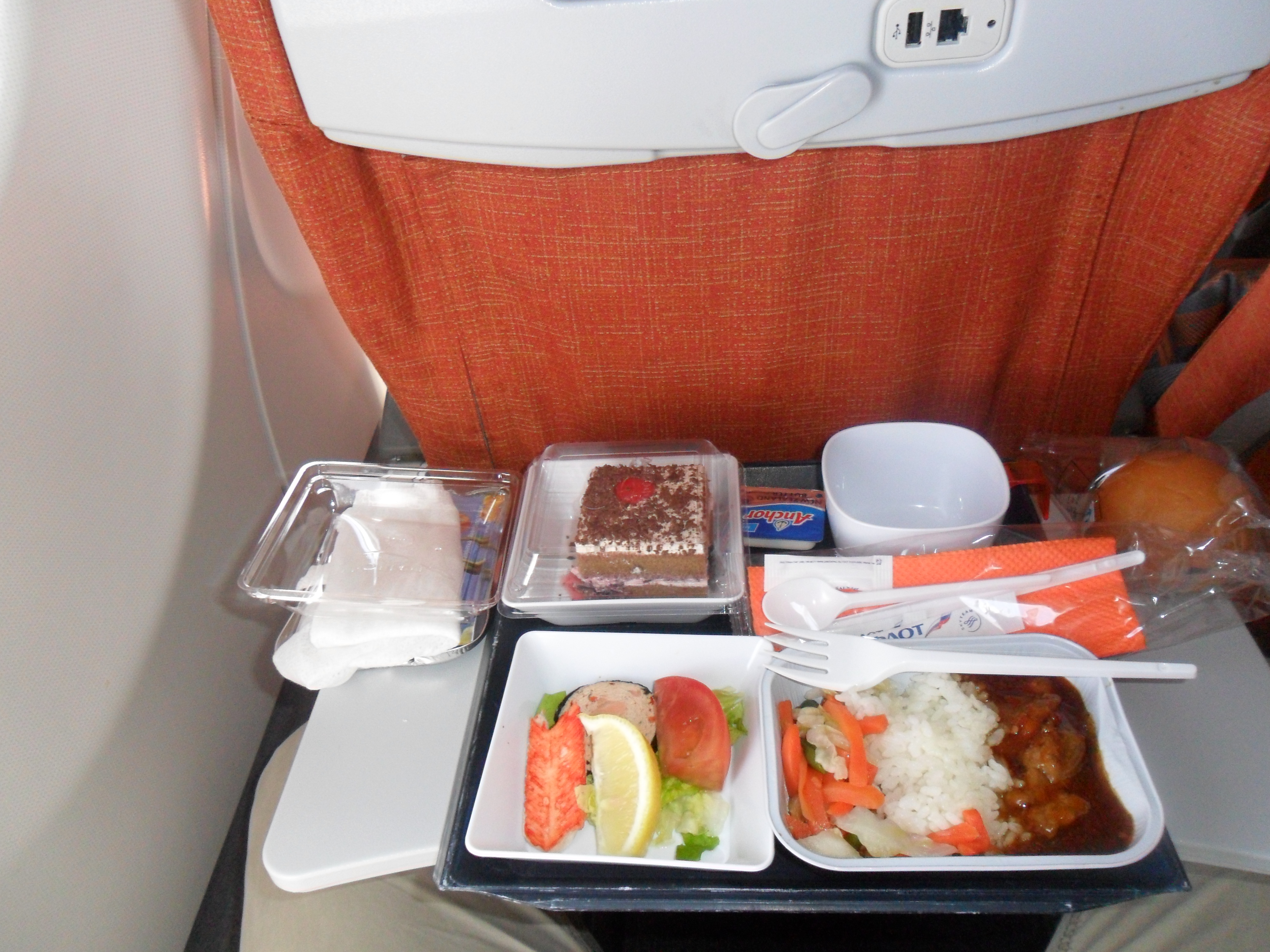 Flight from PEK to SVO economy class